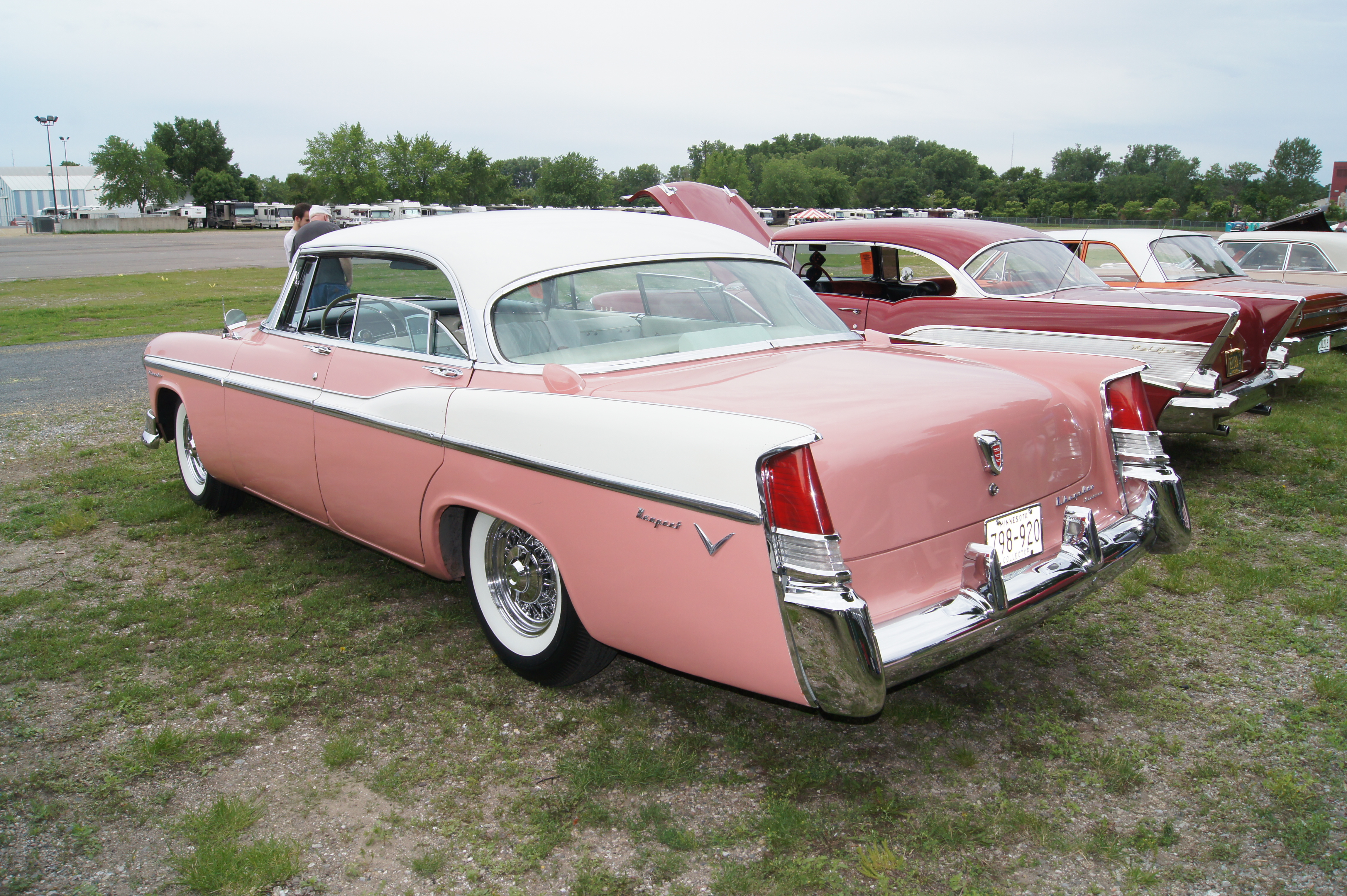 Minnesota Street Rod Association "Back to the Fifties" June 2012 Minnesota State Fairgrounds St. Paul MN